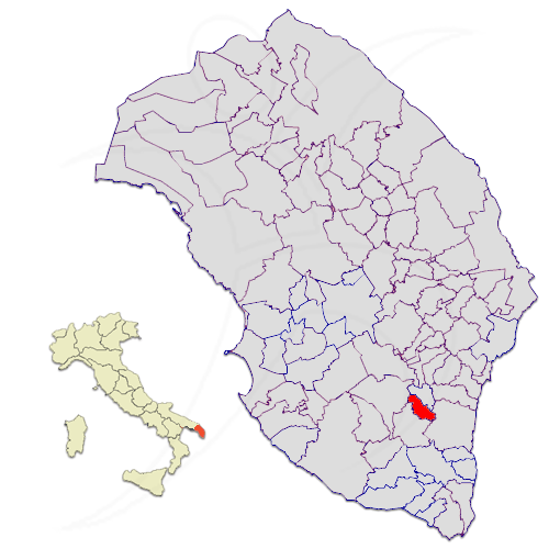 Il territorio del comune di Miggiano in provincia di Lecce